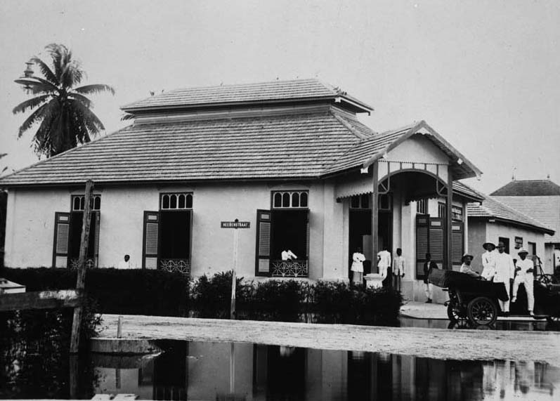 Office of Güntzel & Schumacher in the 'Heerenstraat'